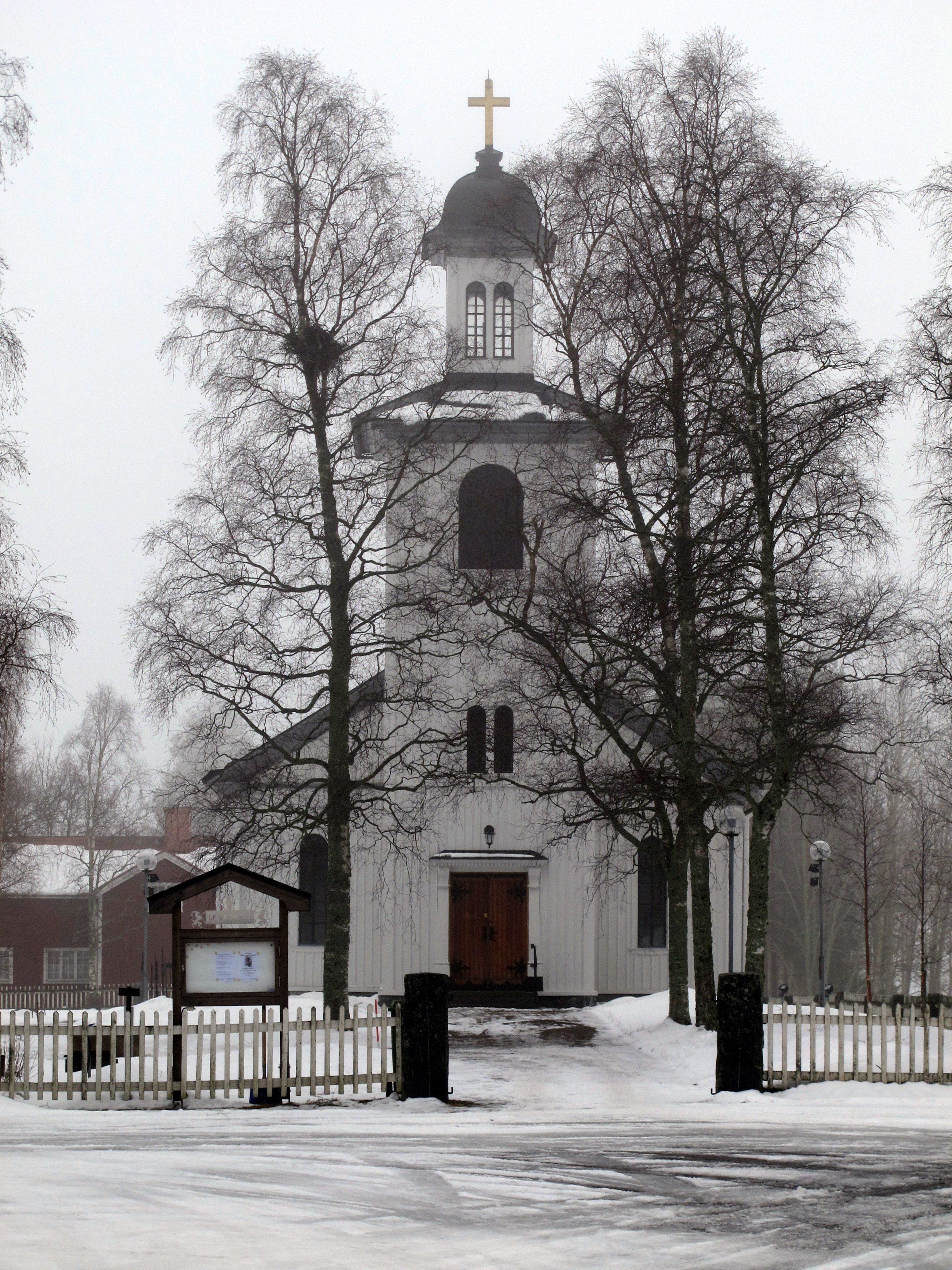 Church of Lingbo, Sweden, in February 2014